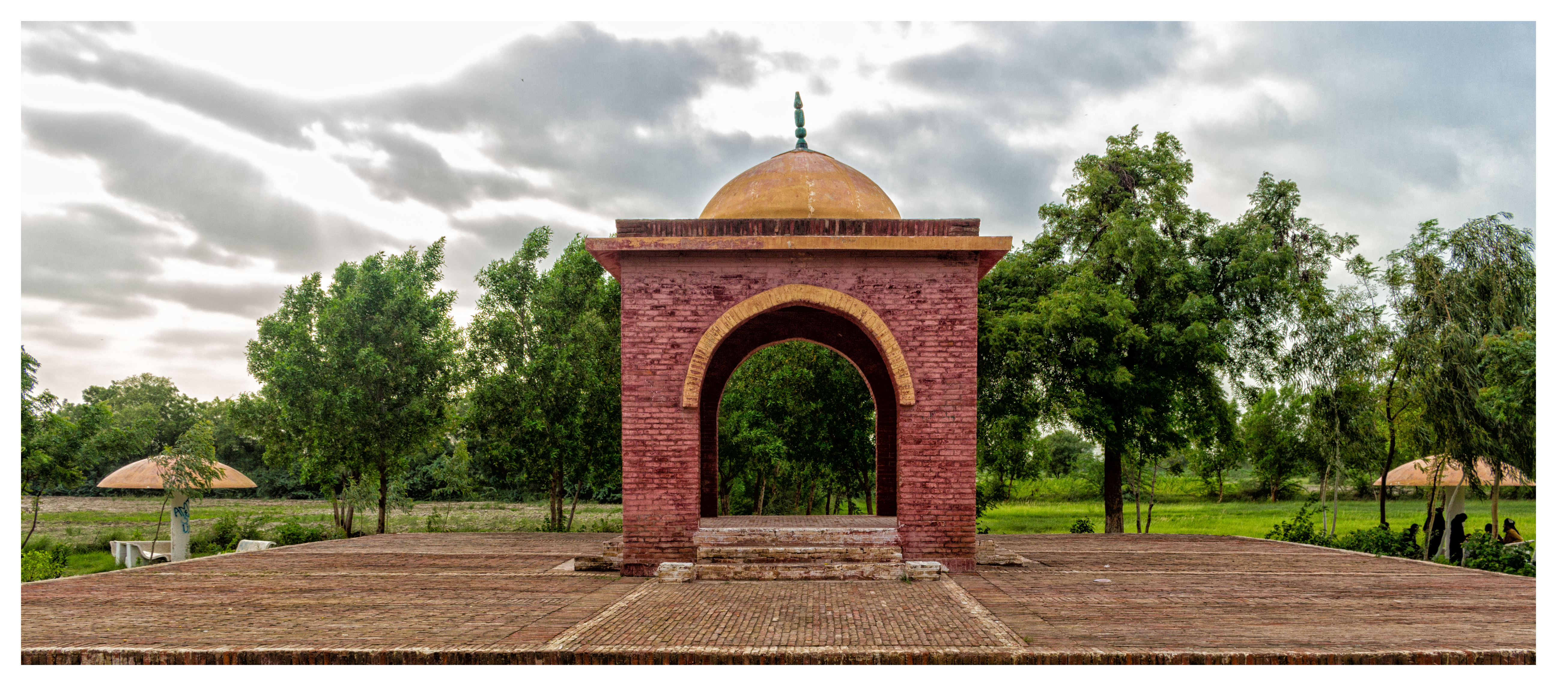 Birthplace of Akbar the Great This is a photo of a monument in Pakistan identified as the SD-61